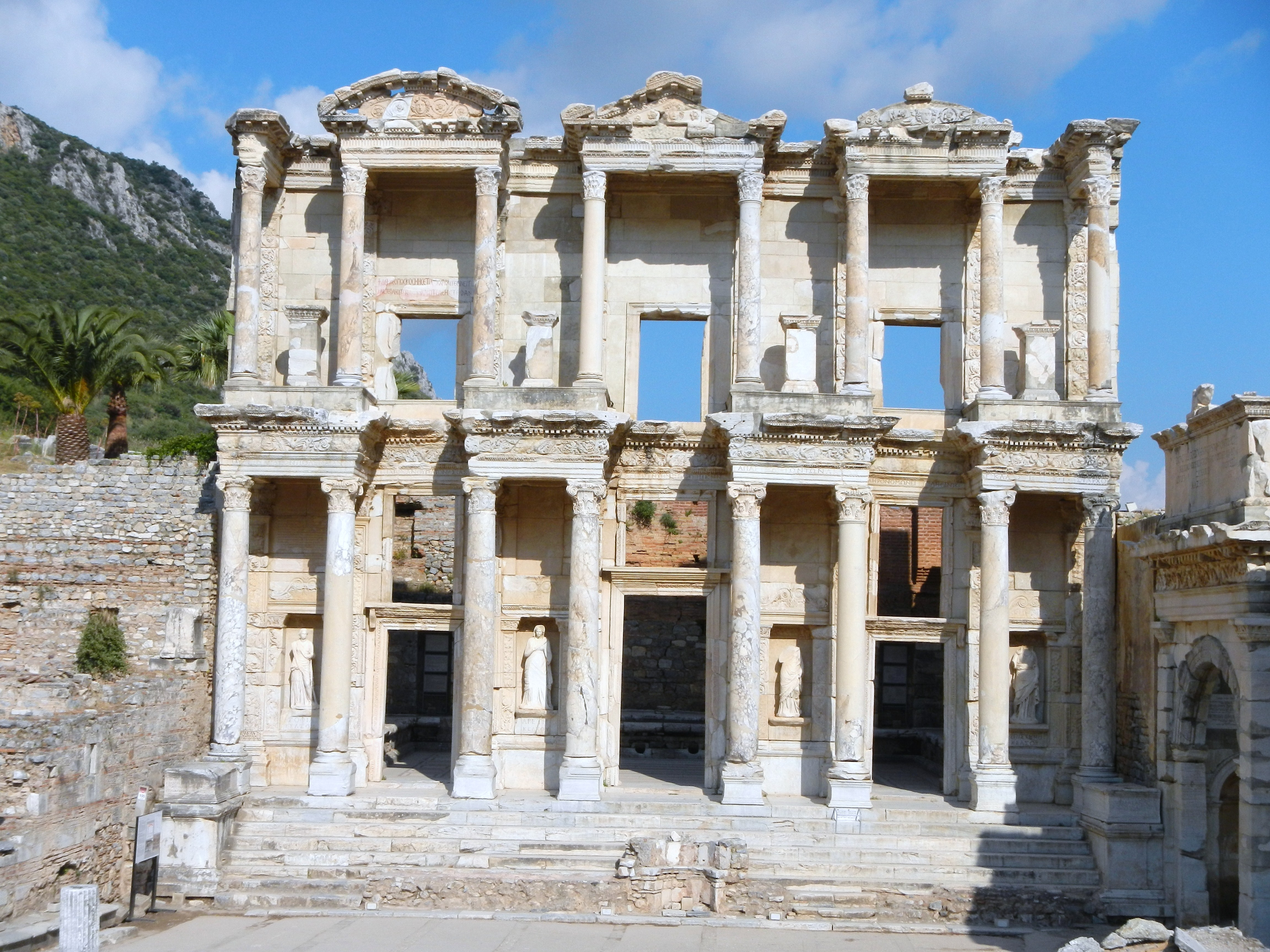 Library of Celsus, Ephesus Turkey